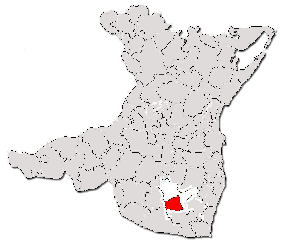 Contour map of commune Comana